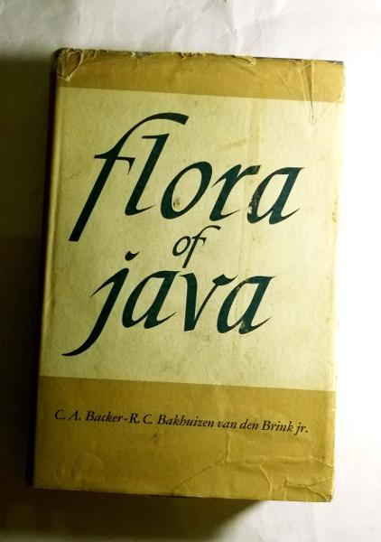 Photo of volume 3; 1968